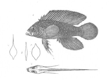 This is an image entitled "Assiculus punctatus" from Volume 1 of John Lort Stokes' 1846 book Discoveries in Australia. The image accompanies the first scientific description of the species.